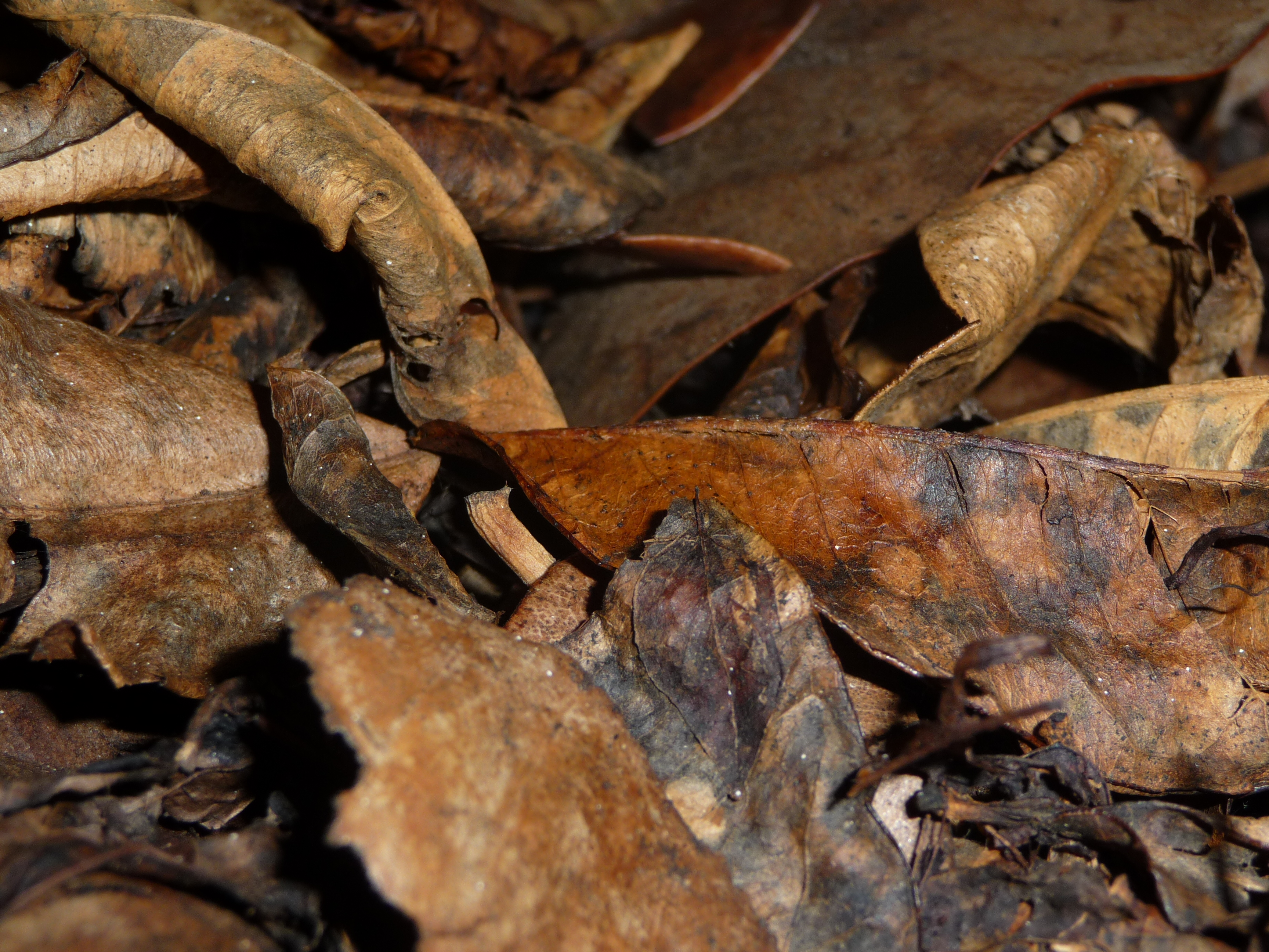 Leaves decaying during the night.